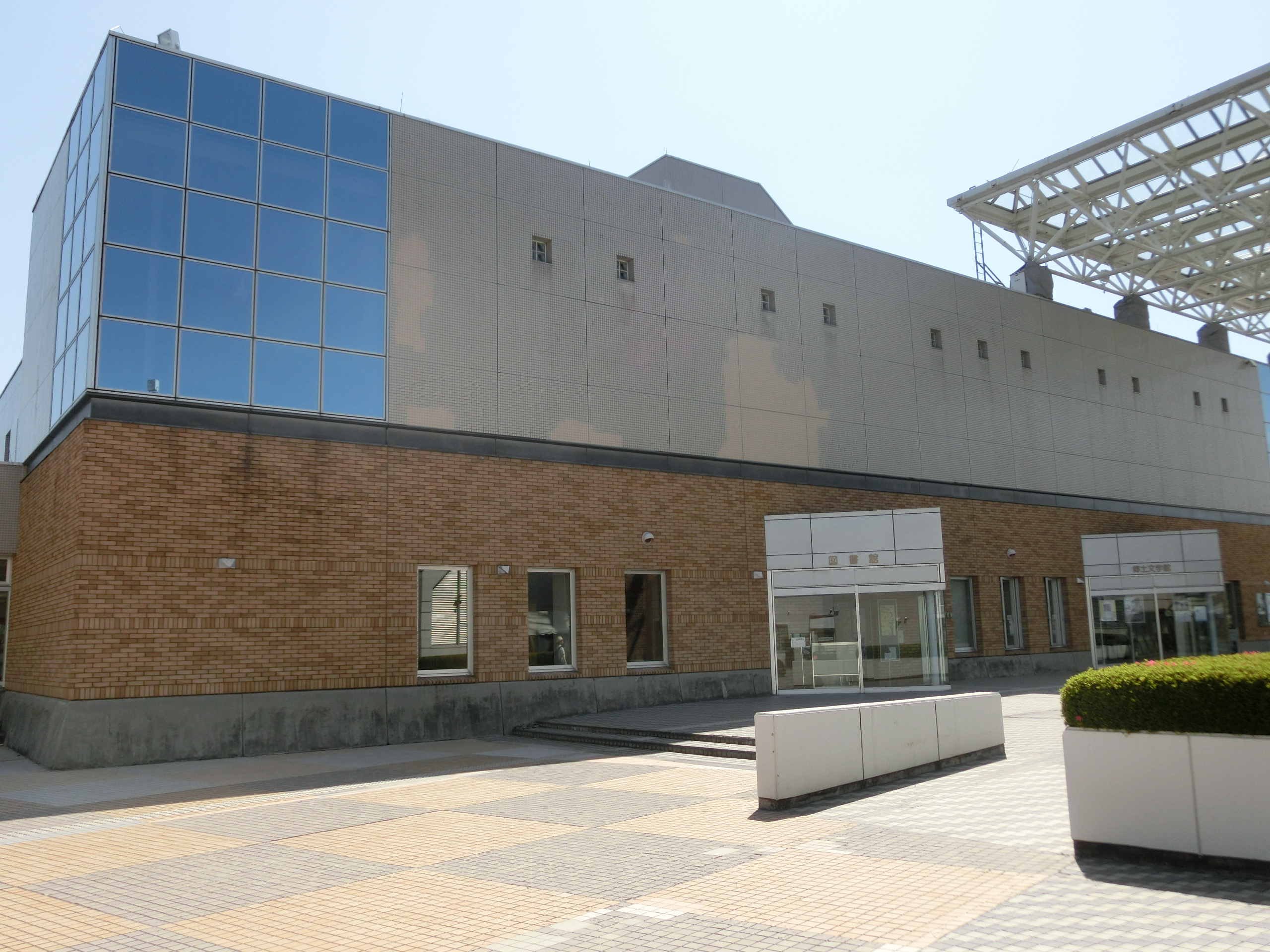 Hirosaki City Pubric Library